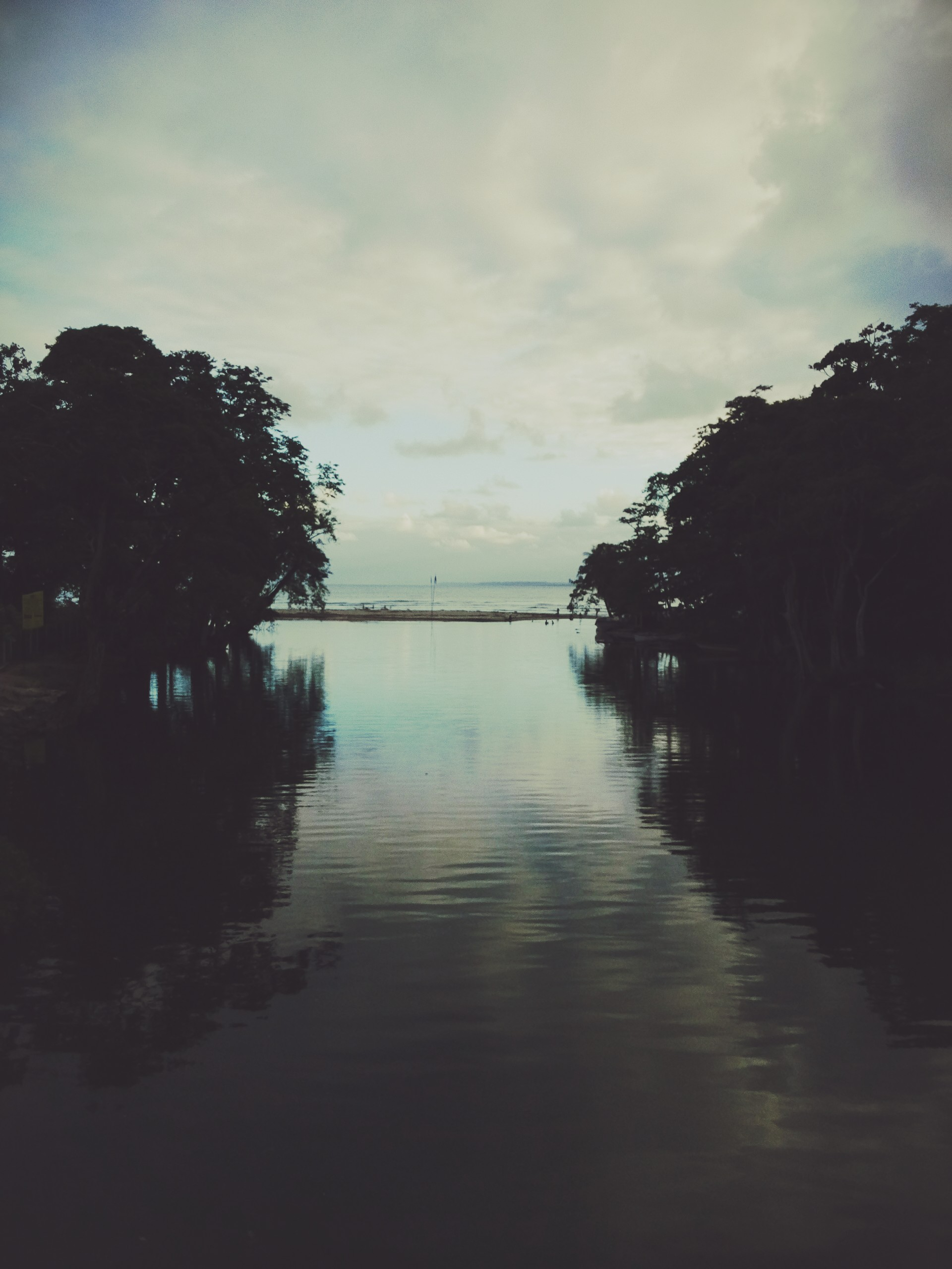 Mouth of the Matelot River at sunset. Matelot, Sangre Grande, Trinidad and Tobago.